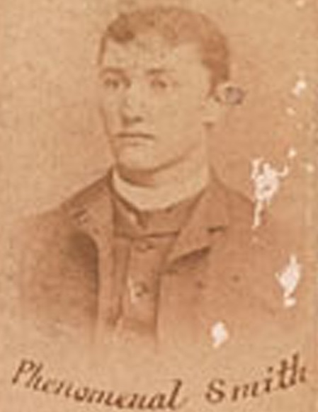 Old Judge tobacco card of Phenomenal Smith